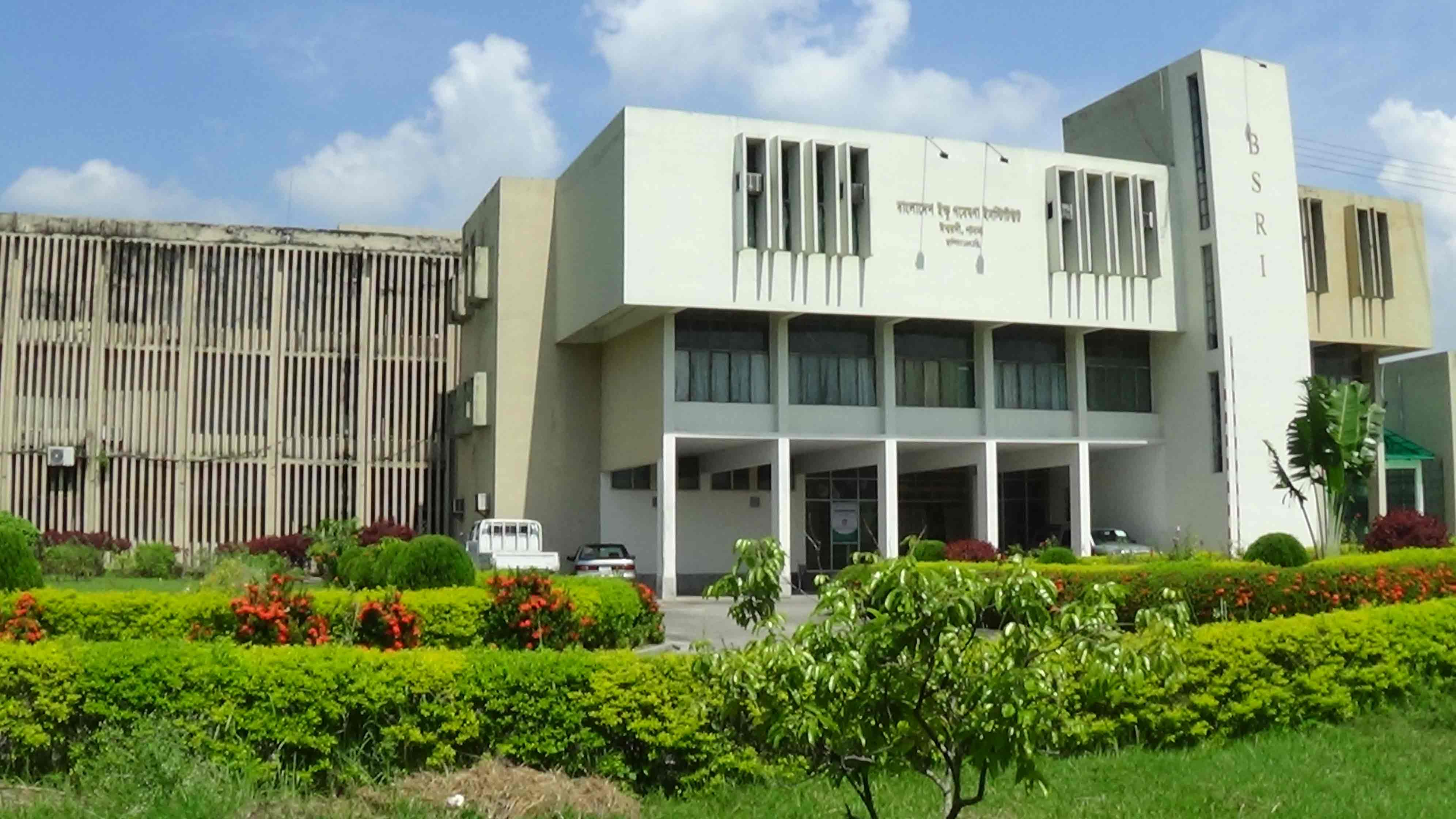 Bangladesh Sugarcane Research Institute (BSRI) is solely responsible for research and extension of the technology related to sugar crops such as sugarcane, sugarbeet, date palm, palmyra palm, nipa palm and stevia